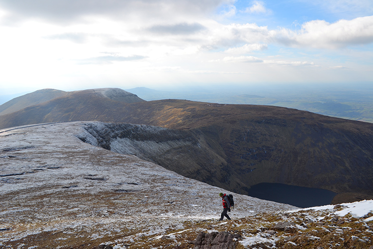 Just after the western summit of Galtymore and looking westwards at Slievecushnabinnia (after right turn), Carrignabinnia, and Lyracappul (farthest); Lough Curra is in the deep corrie to the right; the Galty Wall is just visible following the ridgeline.